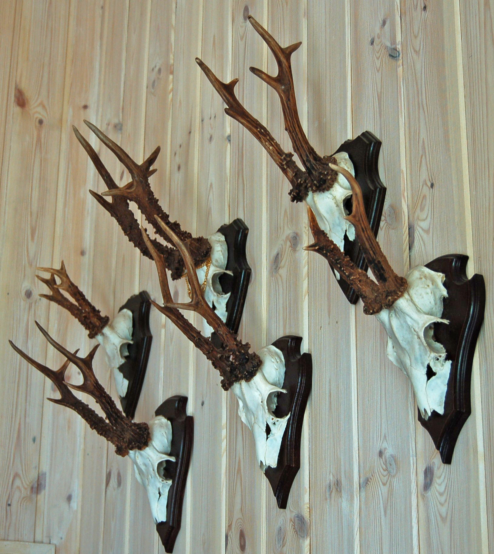 Roe deer - Capreolus capreolus Norsk (bokmål): Gevir av rådyr - Capreolus capreolus